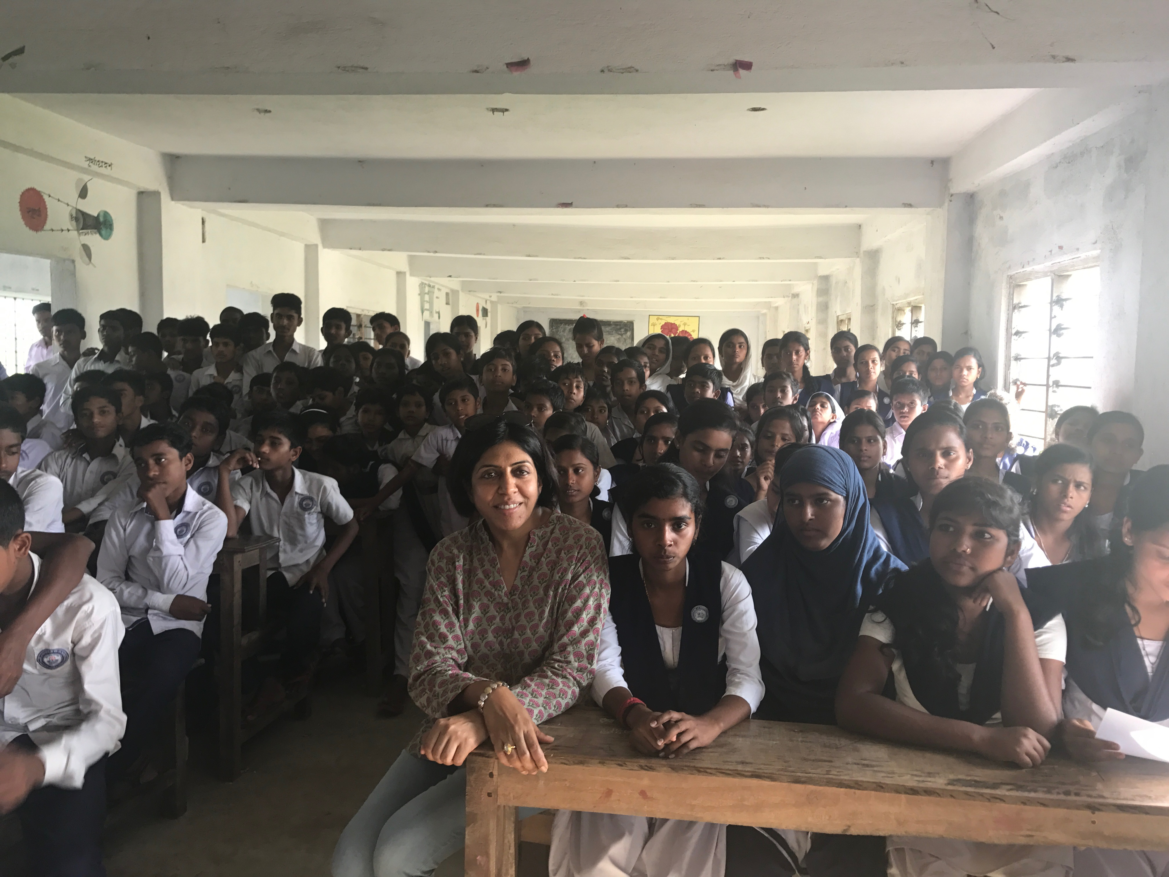 Leena kejriwal with the students at Kutoli